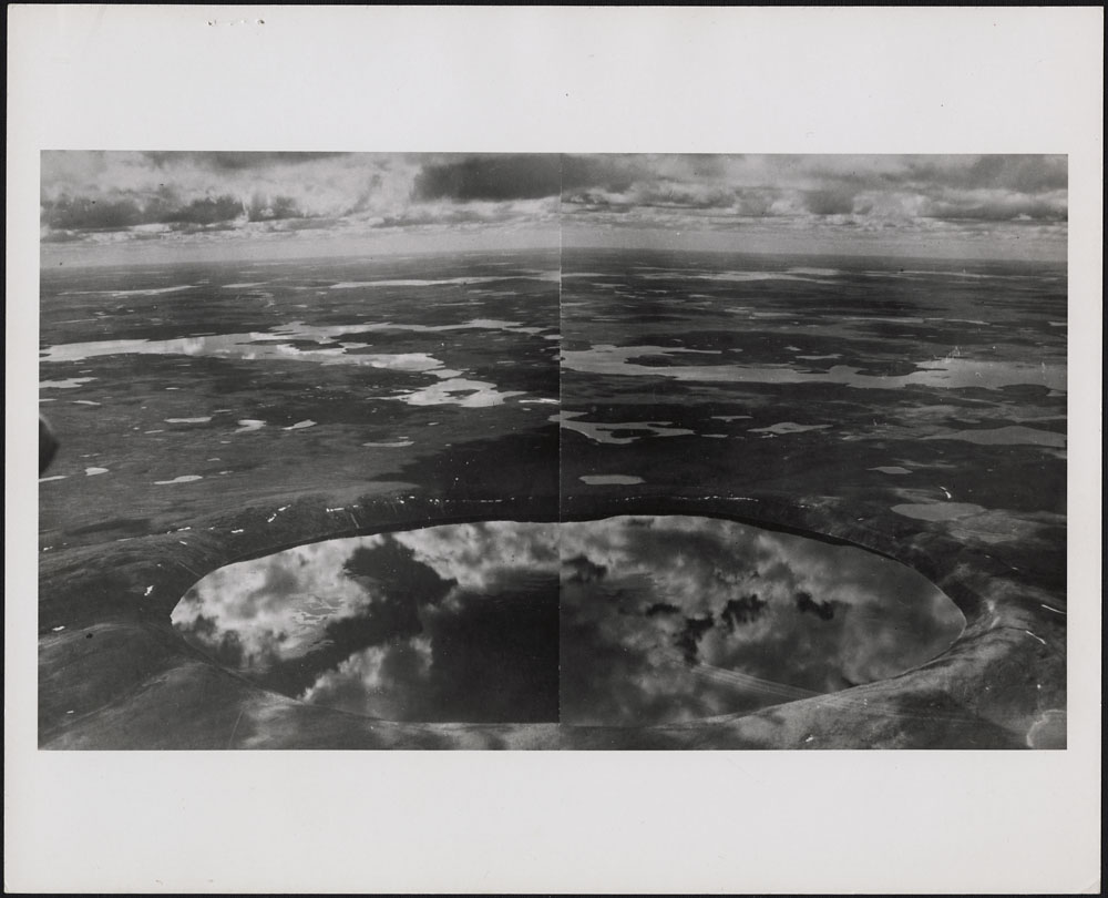 Air photo of New Quebec Crater (named today Pingualuit Crater). From Research on Meteorite Impact Craters, study of meteorite impact craters in Canada by C.S. Beals, 1950-1975, Library and Archives of Canada.